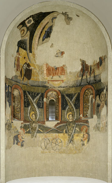 CIRCLE OF THE MASTER OF PEDRET Apse of Santa Maria d'Àneu End of 11th century – beginning of 12th century